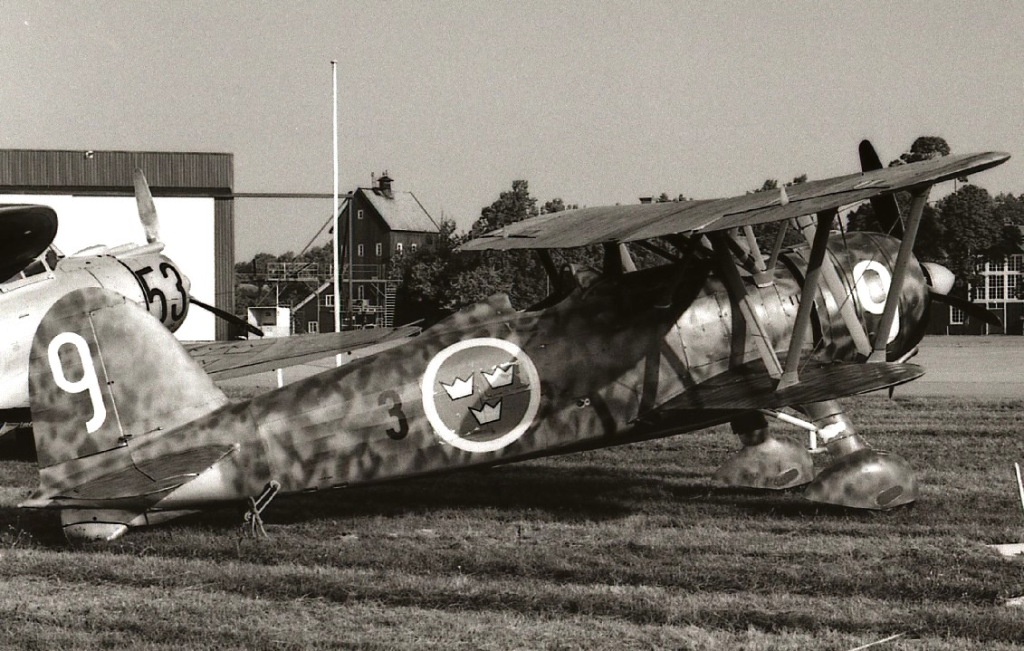 Fiat CR 42, Swedish Air Force J 11